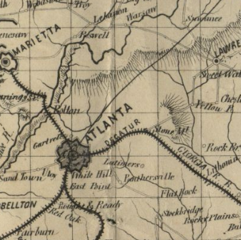 Portion of a map being compiled in the Engr. Bureau, July 1864